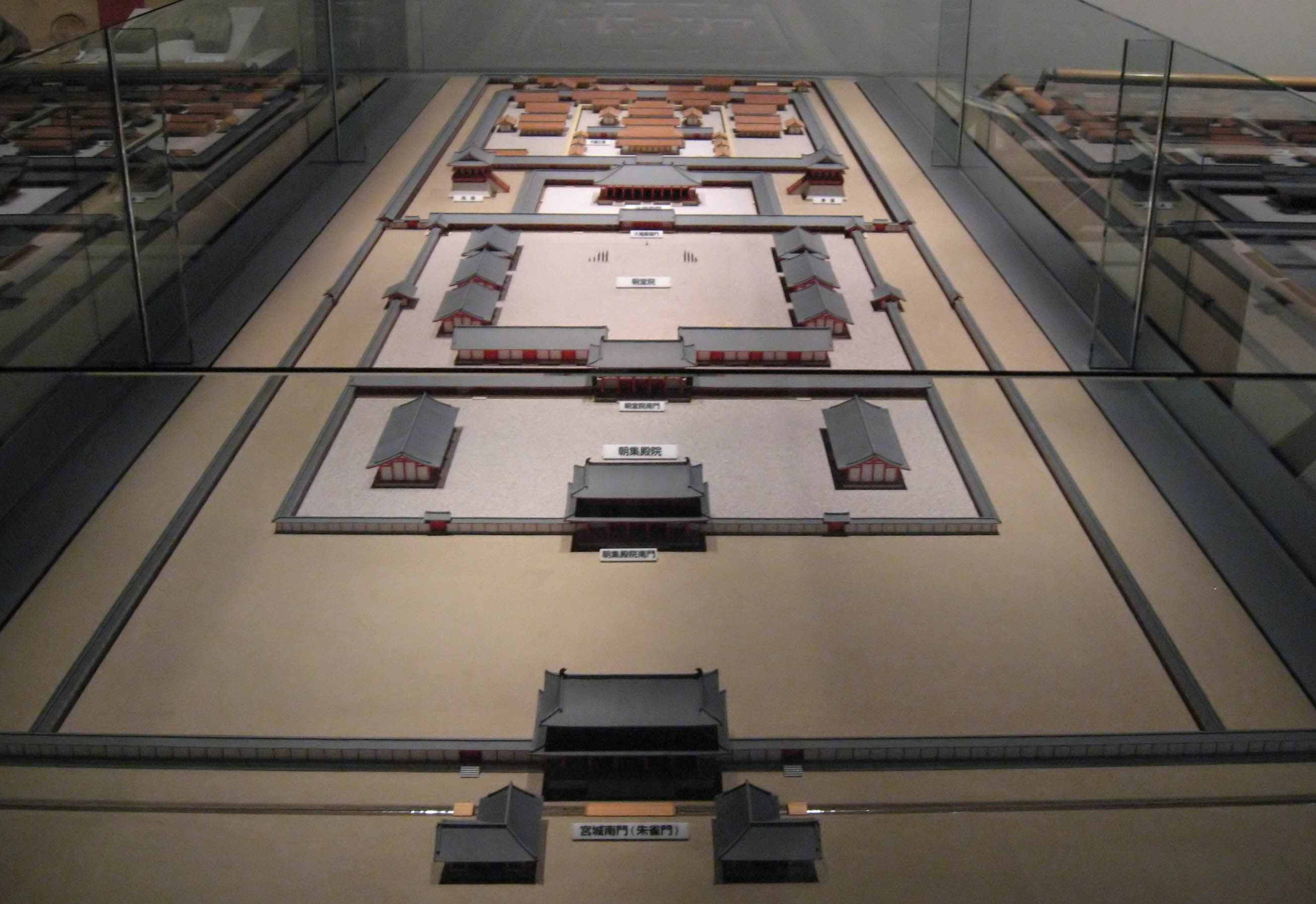 Scale model of Later Naniwa palace